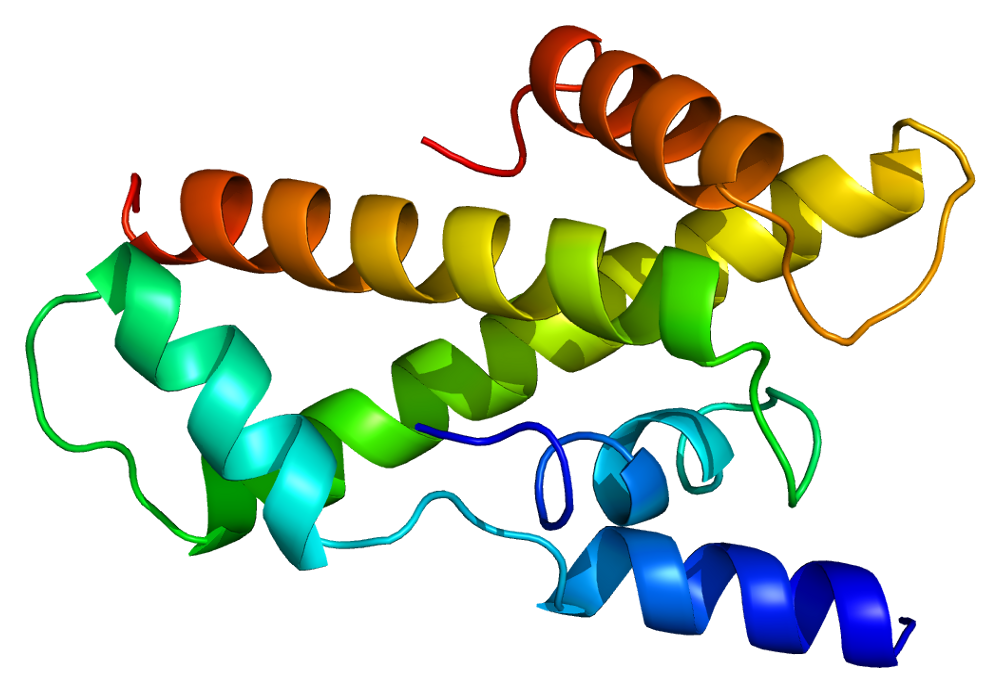 Structure of the TAF11 protein. Based on PyMOL rendering of PDB 1bh8.